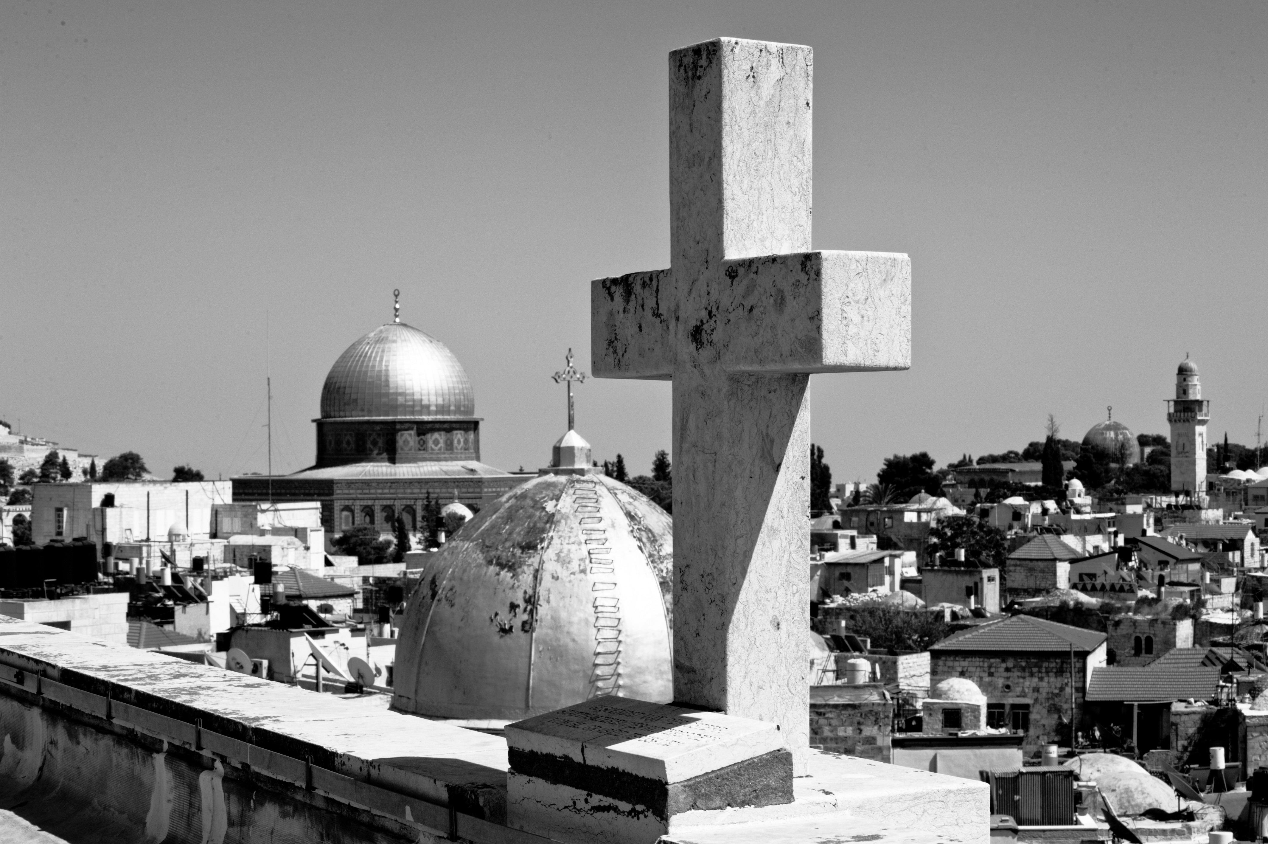 The amazing religious commingling of Jerusalem, from the roof.